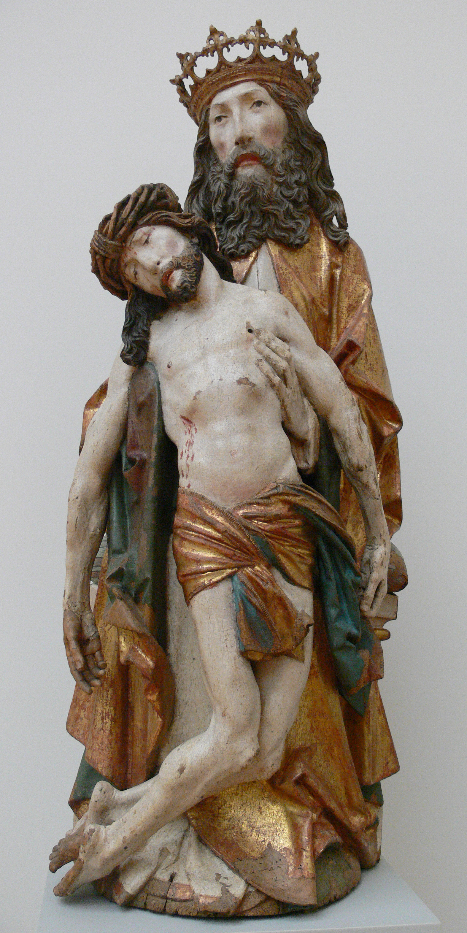 Workshop of Tilman Riemenschneider: God the Father with the suffering Christ (Throne of Mercy), c. 1510, limewood, old colours (the dove usually found with a Throne of Mercy has been lost). Skulpturensammlung (Inv. 2549, acquired in 1900), Bode-Museum Berlin.